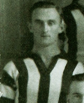 Photo of Kevin Barrett in 1940